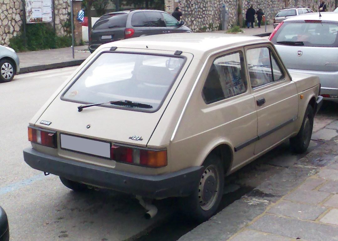 Fiat 127 third generation rear